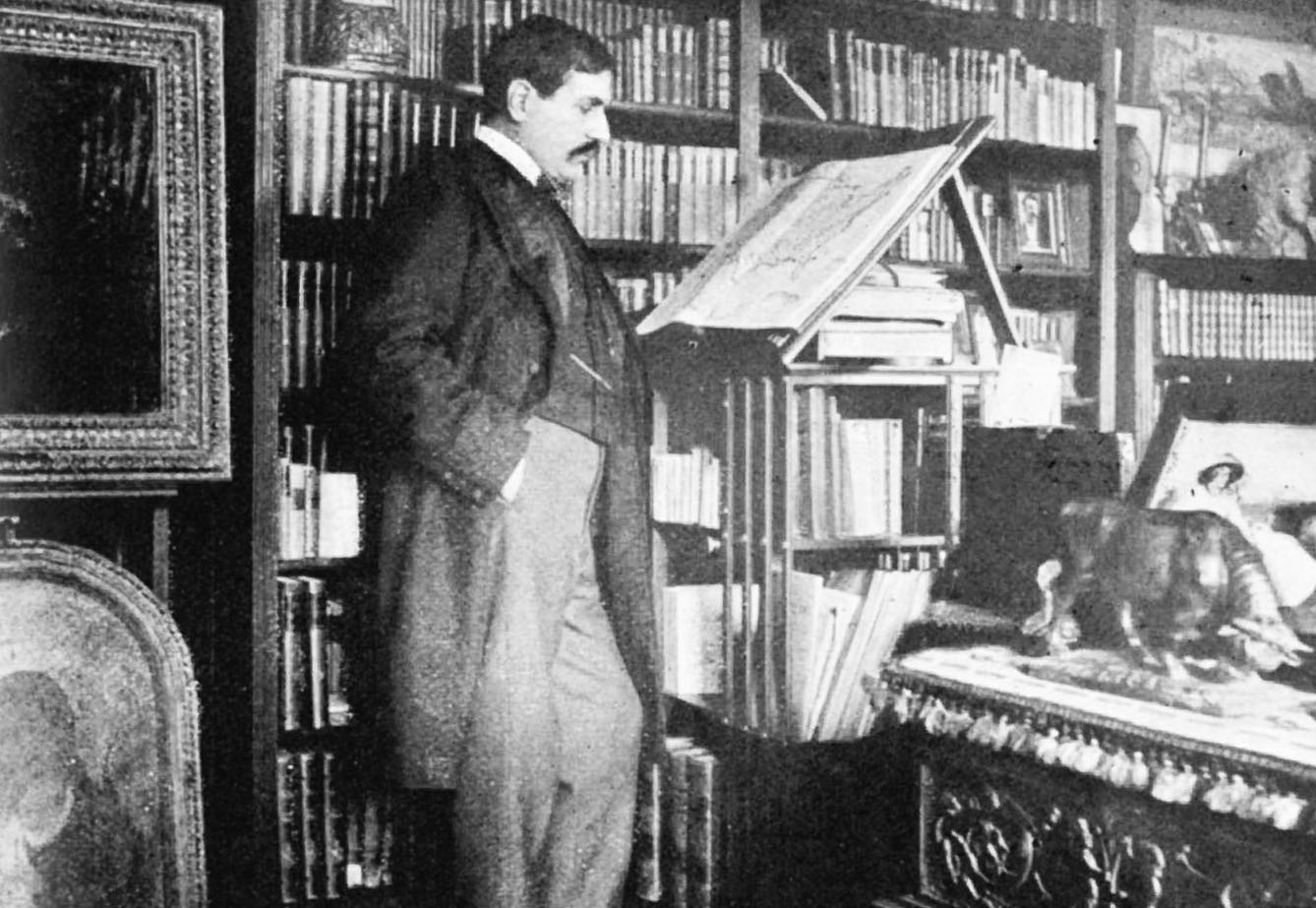 French Writer Paul Bourget (1852-1935).